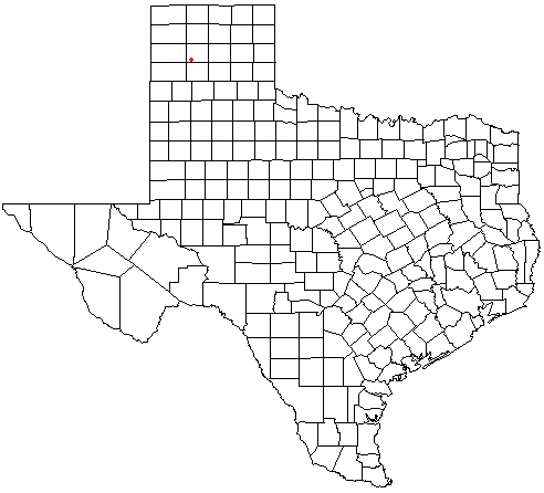 Bushland, Texas location map; created with the GIMP. Made by User:Acntx.